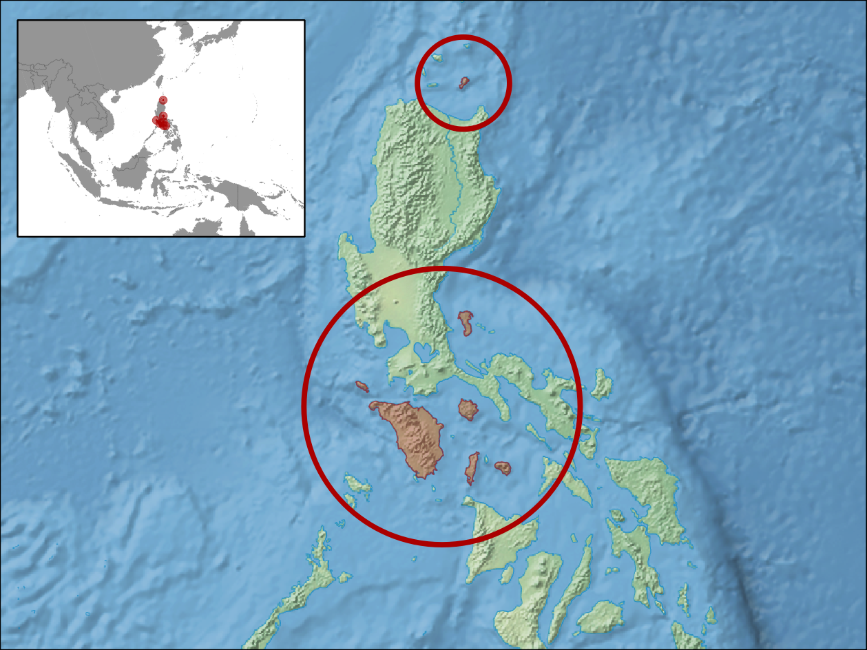 geographic distribution of Brachymeles bonitae